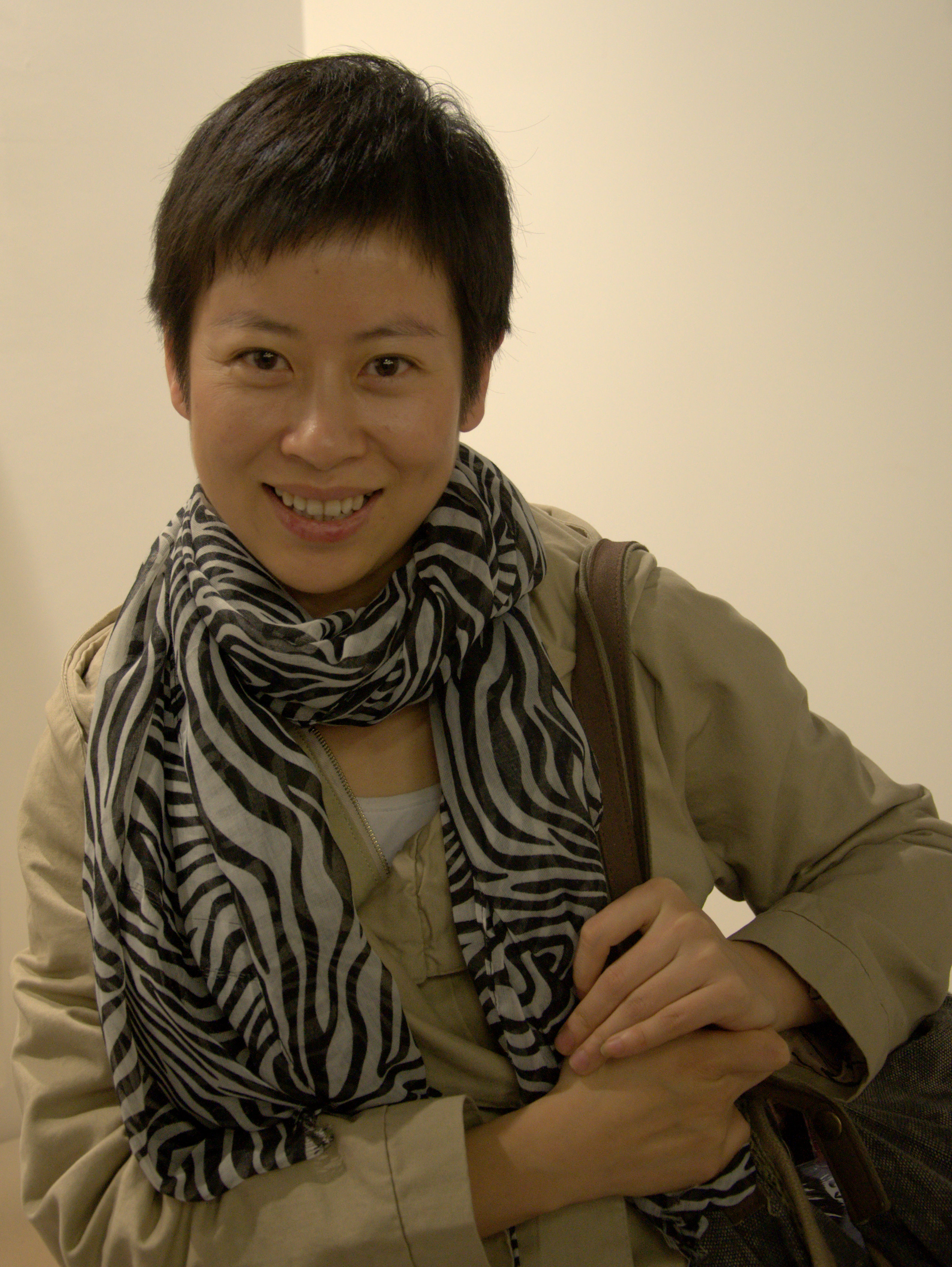 portrait of Dr. Liu Yu.（ Taken on Oct 30, 2010, One Way Street Book Club.